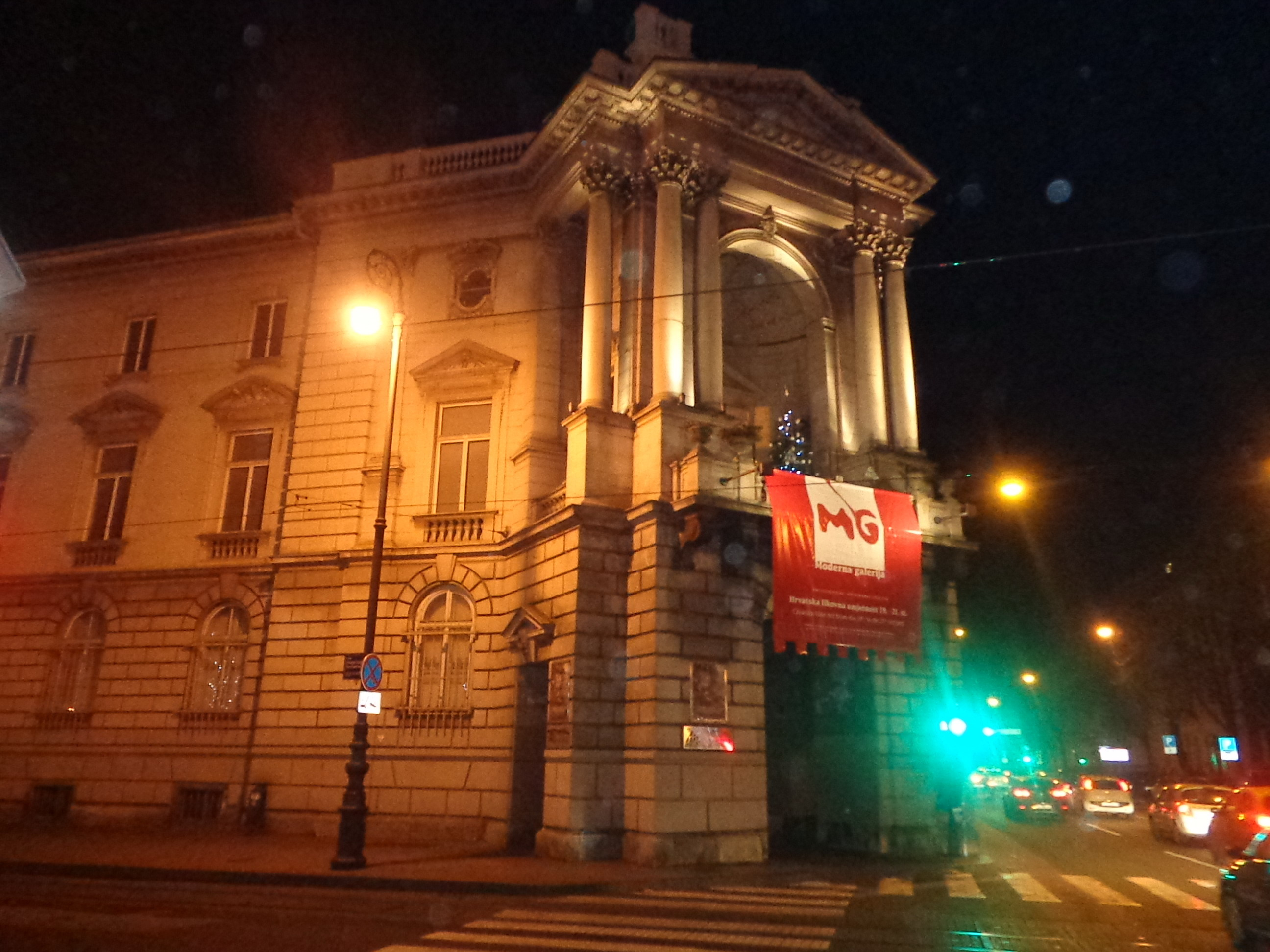 Modern Gallery in Zagreb, Croatia, Zrinjevac Park - at night